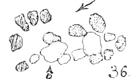 Outline of the dolmen Bretsch 2, Saxony-Anhalt